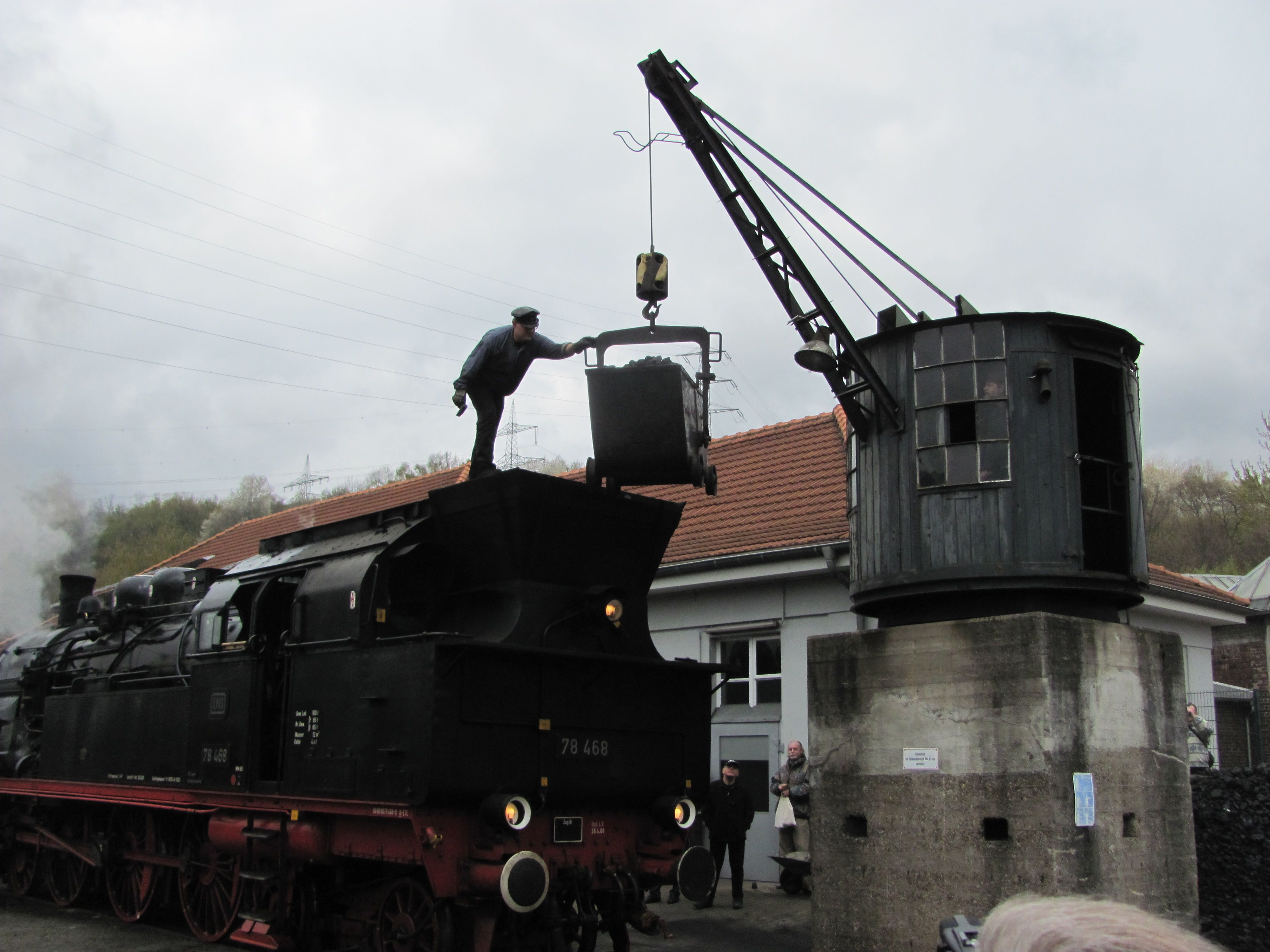 taking coal - Railway Museum Bochum-Dahlhausen, Germany